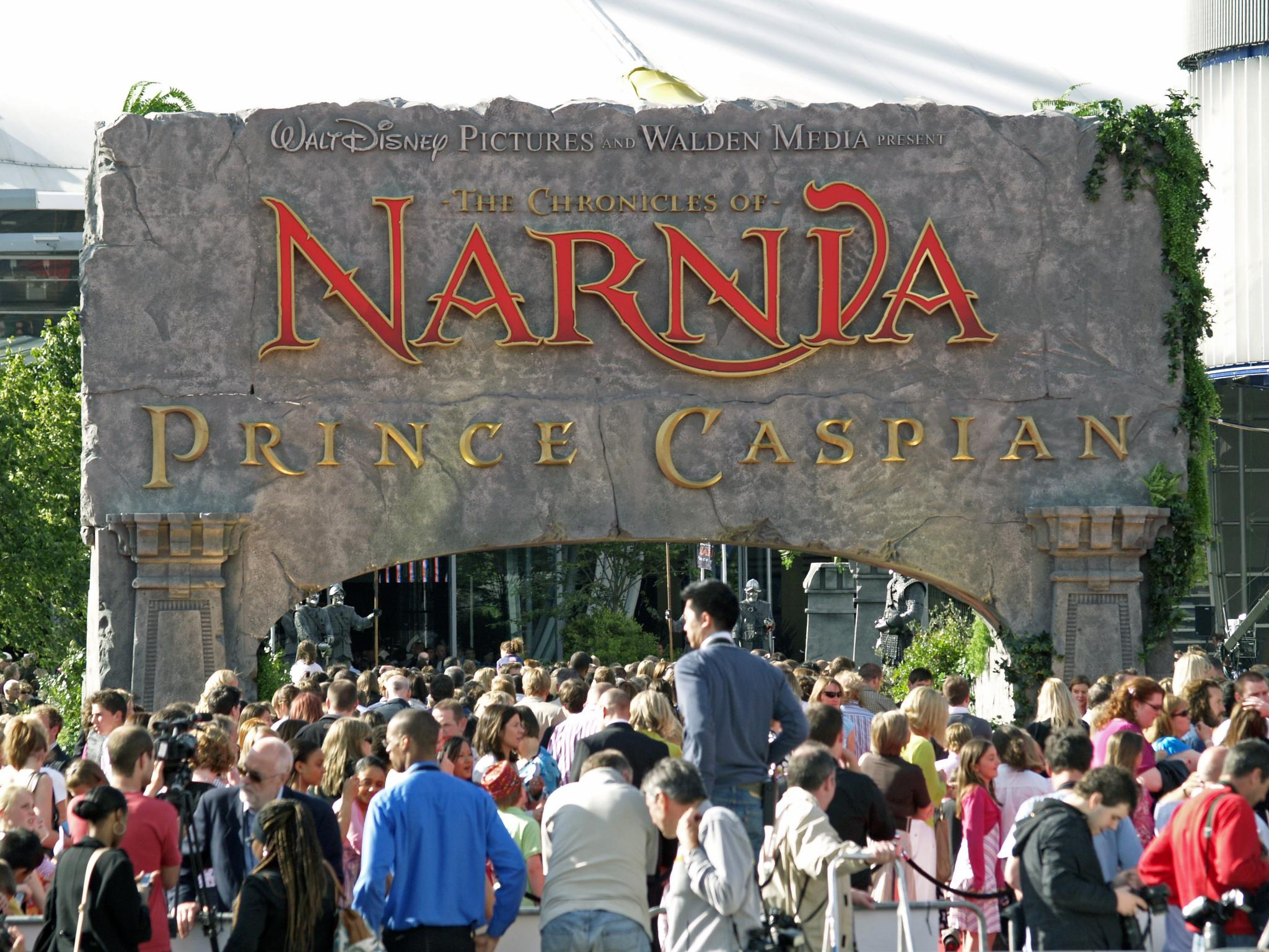 The Chronicles of Narnia: Prince Caspian premiere at o2